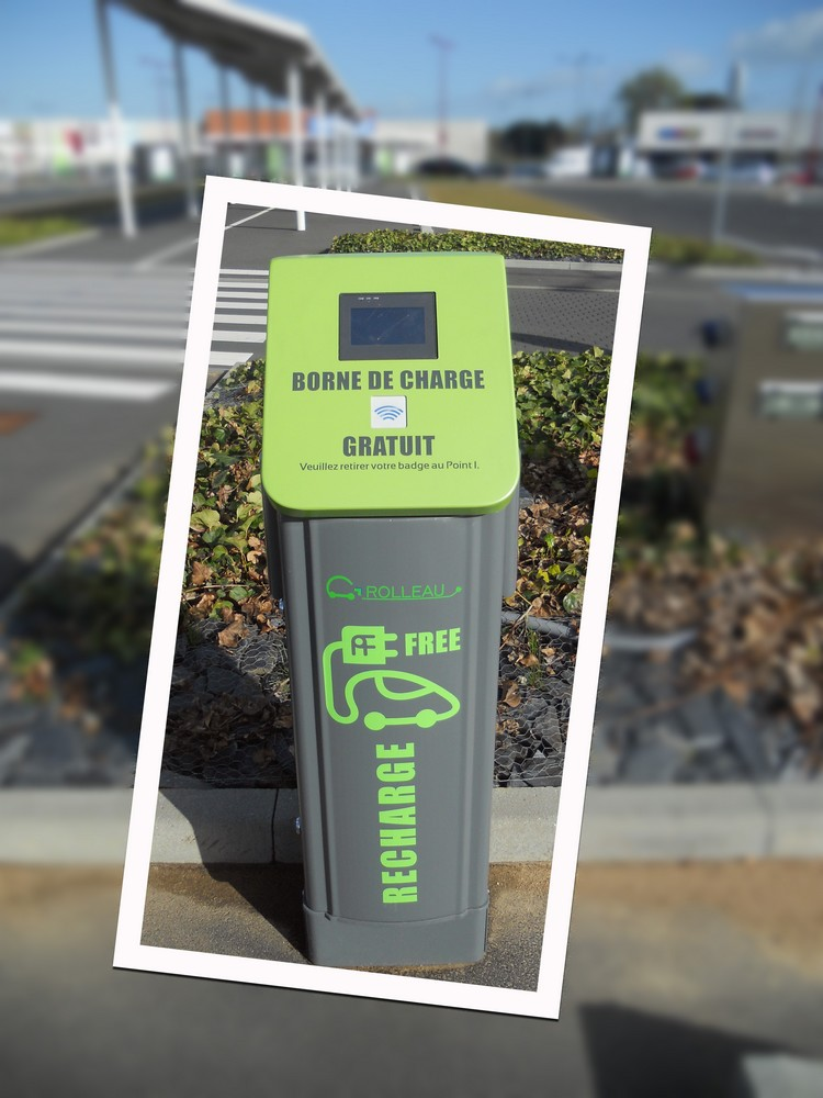 borne